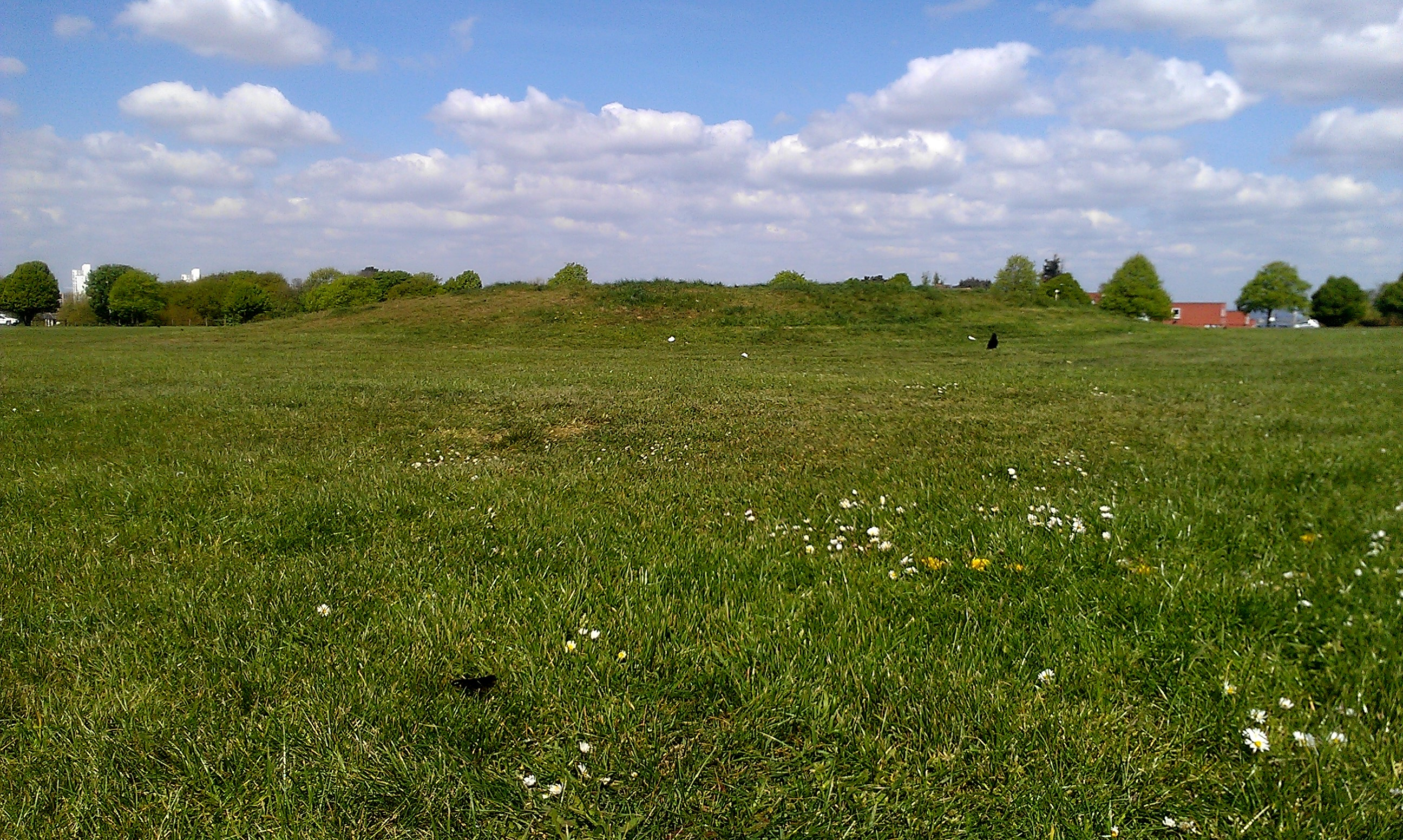 The prehistoric tumulus on Winn's Common in Plumstead, London Borough of Greenwich.